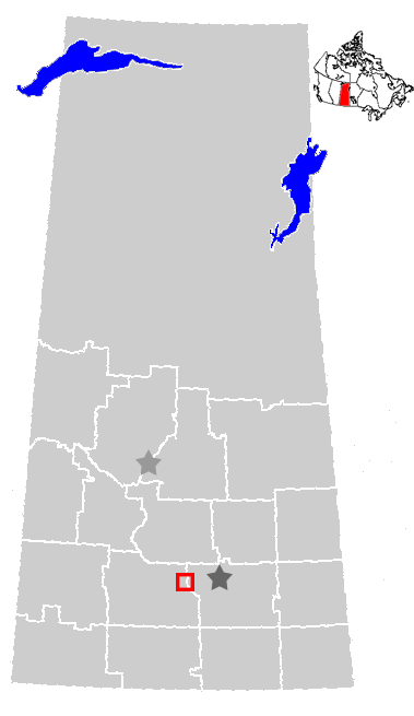 Location of Moose Jaw, Saskatchewan